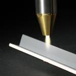 A plasma beam cleaning and removing contaminants from a metal surface.